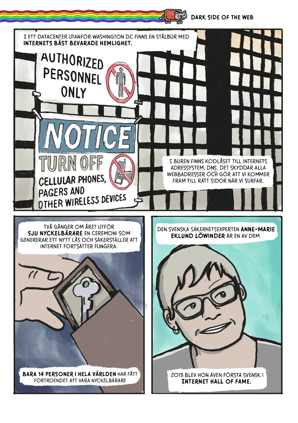 The illustrated history of Internet. A comic created for children and youths illustrated by Jesper Wallerborg for Internetmuseum.